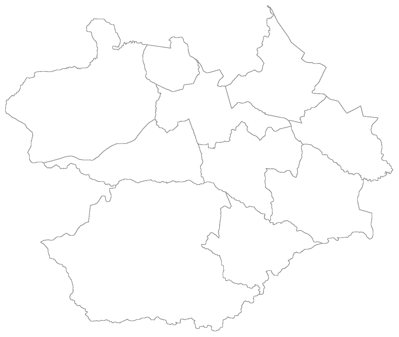 district of Arroio do Só in Santa Maria municipality